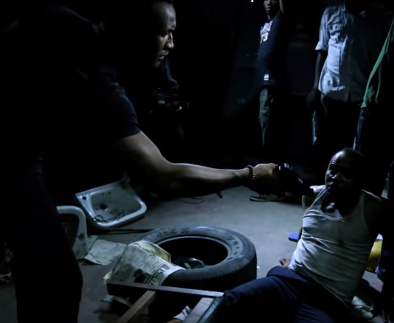 Gbomo Gbomo Express 2015 Nigerian film - a behind the scenes pic